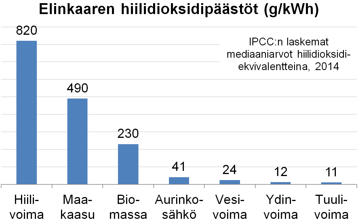 Emissions of selected electricity supply technologies (gCO2eq/kWh). Median values from Table A.III.2 of Climate Change 2014: Mitigation of Climate Change. Contribution of Working Group III to the Fifth Assessment Report of the Intergovernmental Panel on Climate Change. This is the same figure as CO2 Emissions from Electricity Production IPCC.png, but text is translated to Finnish language